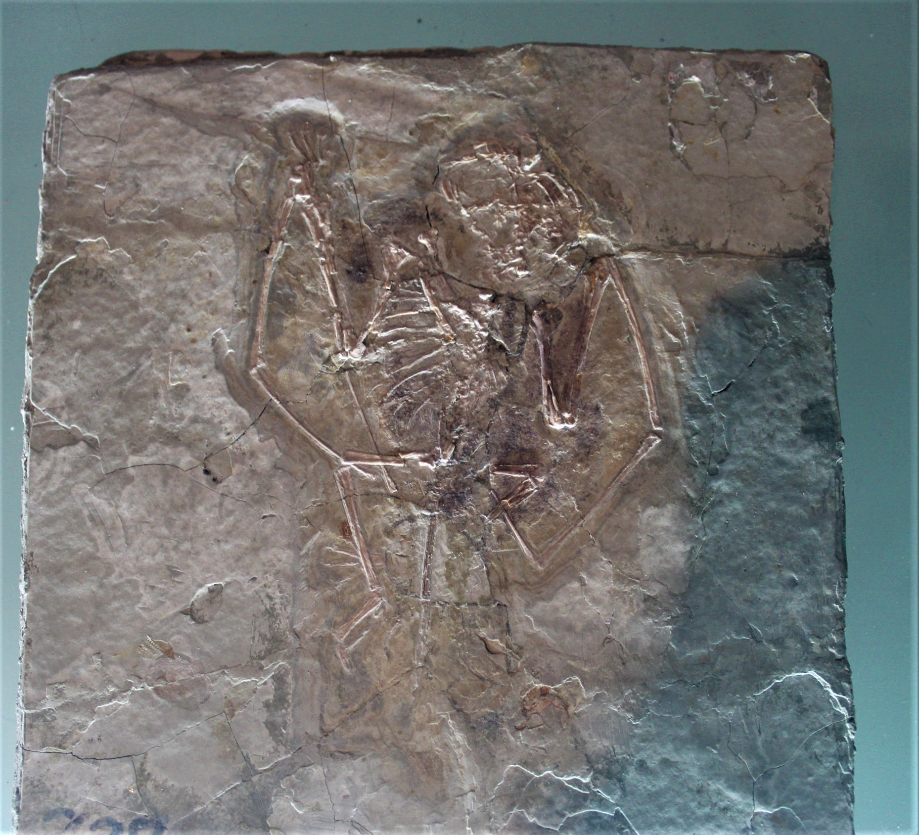 Holotype of Dendrorhynchoides curvidentatus on display at the Geological Museum of China.